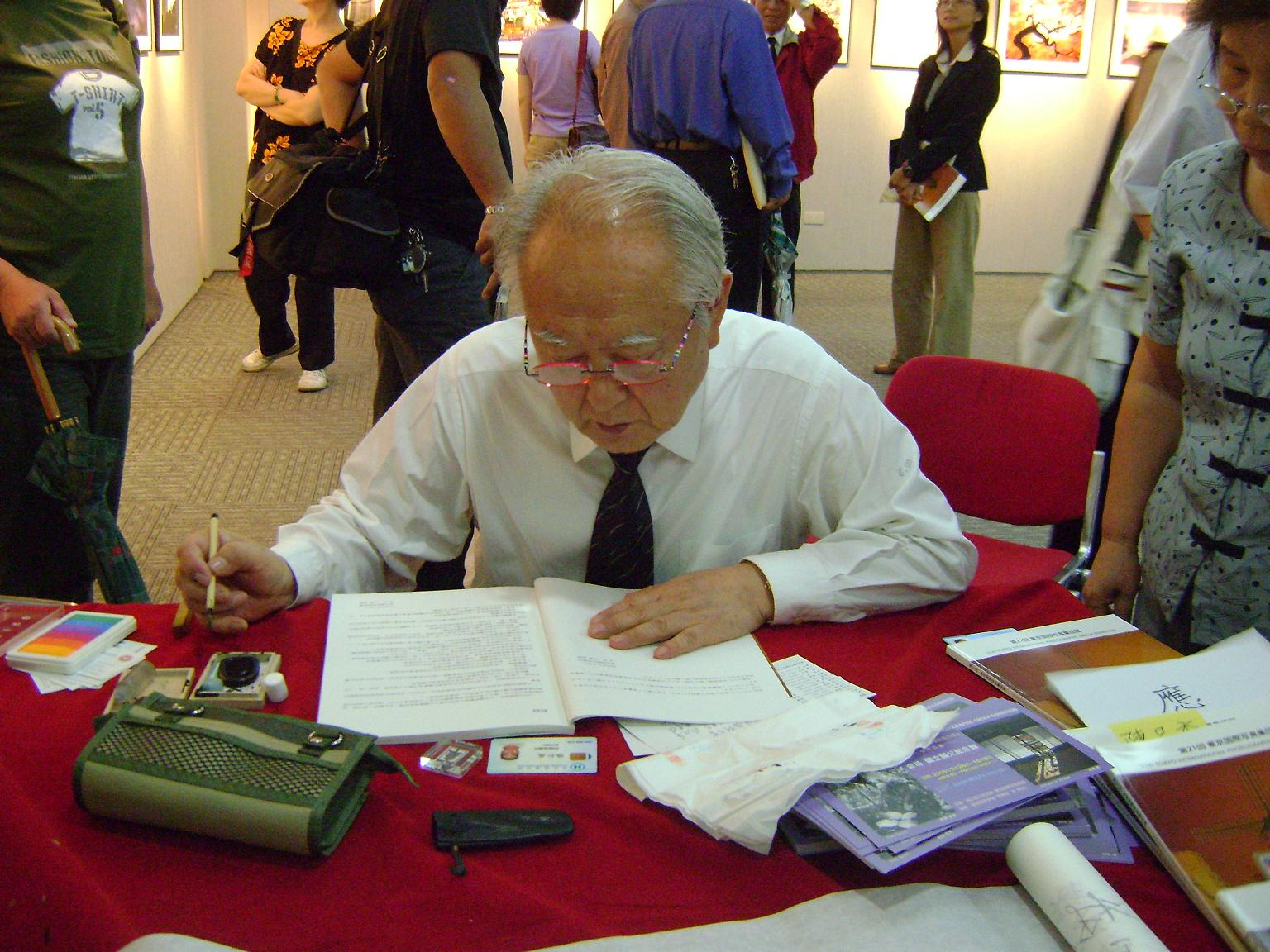 Toshiki Ozawa in Taipei, September 27th, 2008